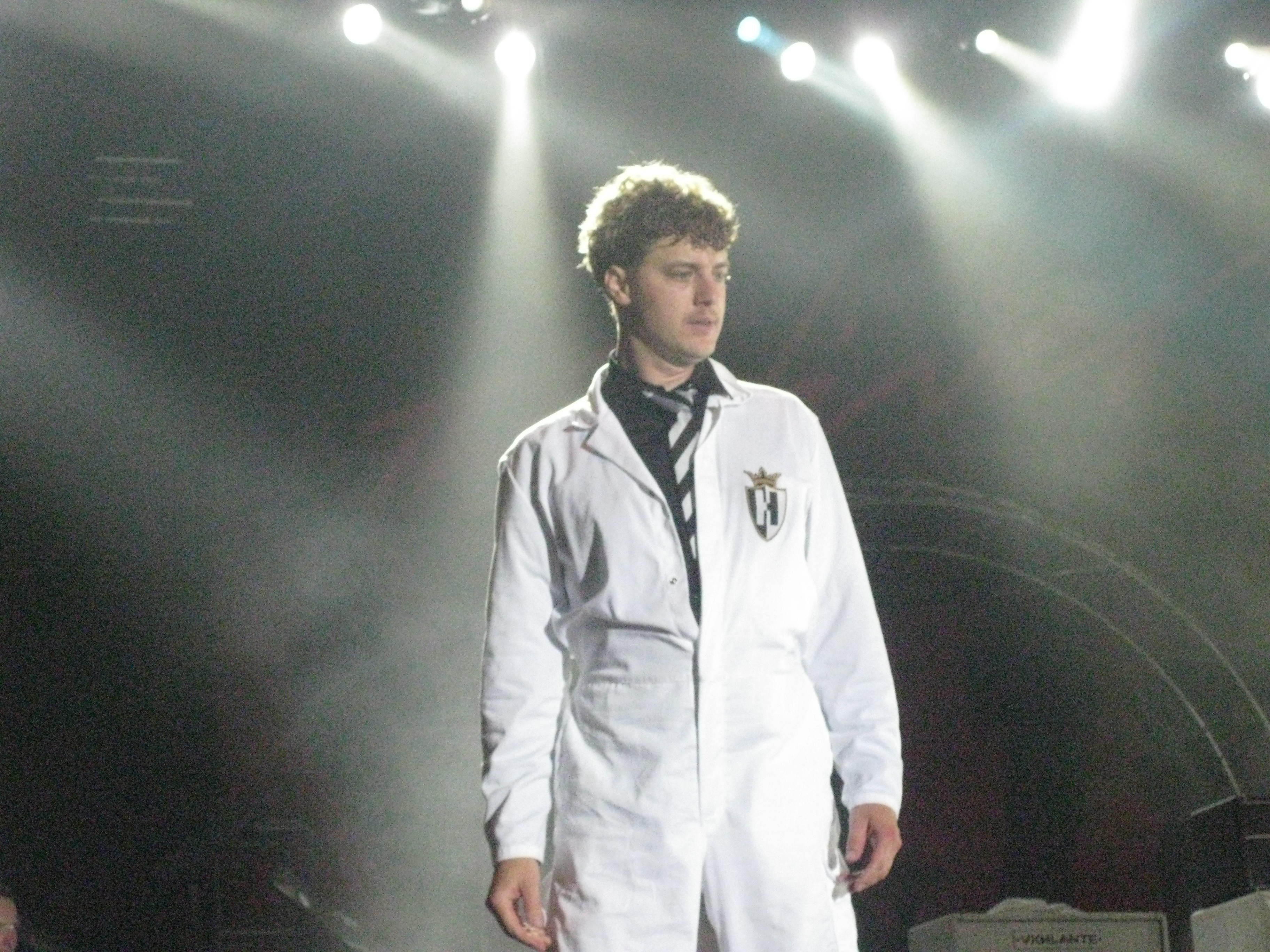 Nicholaus Arson, guitarrista de The Hives, no festival Noroeste pop-rock da Coruña do ano 2009.